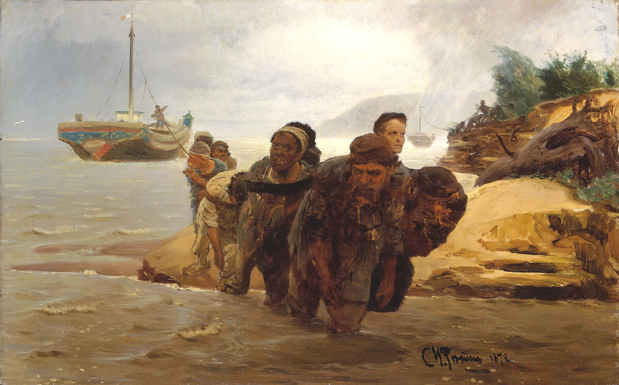 Barge Haulers wading